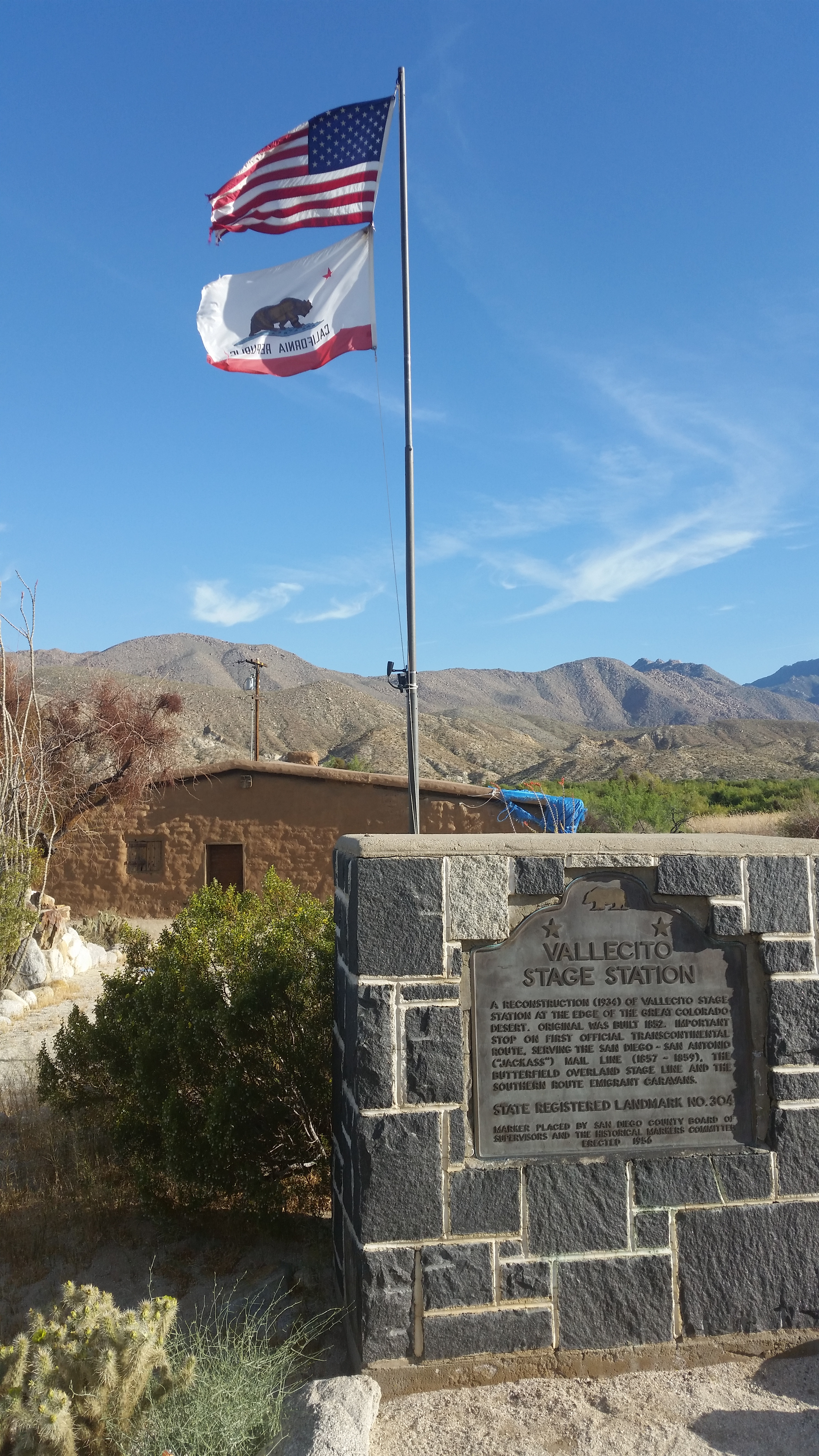 California historic landmark plaque north of the reconstructed (1934) Vallecitos Stage Station